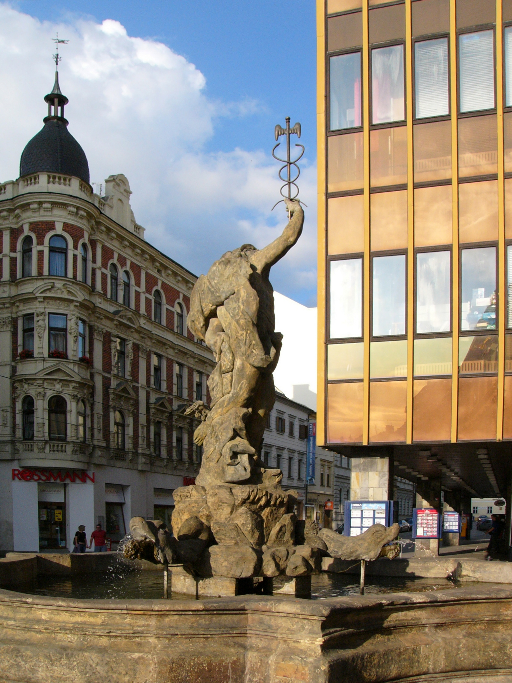 Mercury Fountain in Olomouc (Czech Republic).